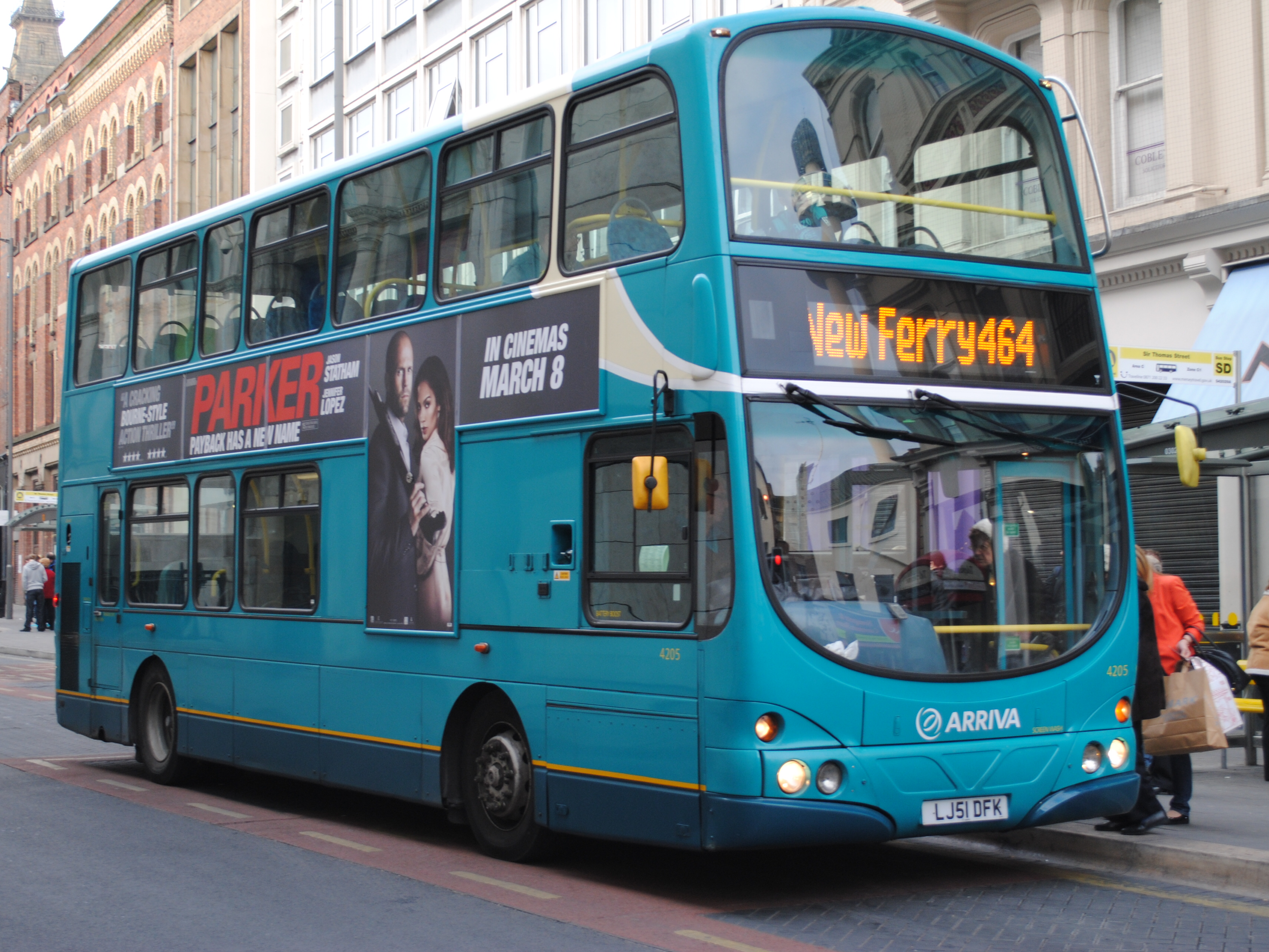 Volvo B7TL Wright Eclipse Gemini. route 464 Liverpool - New Ferry been took over evenings and sunday service from Impera 164 Woodside - New Ferry route